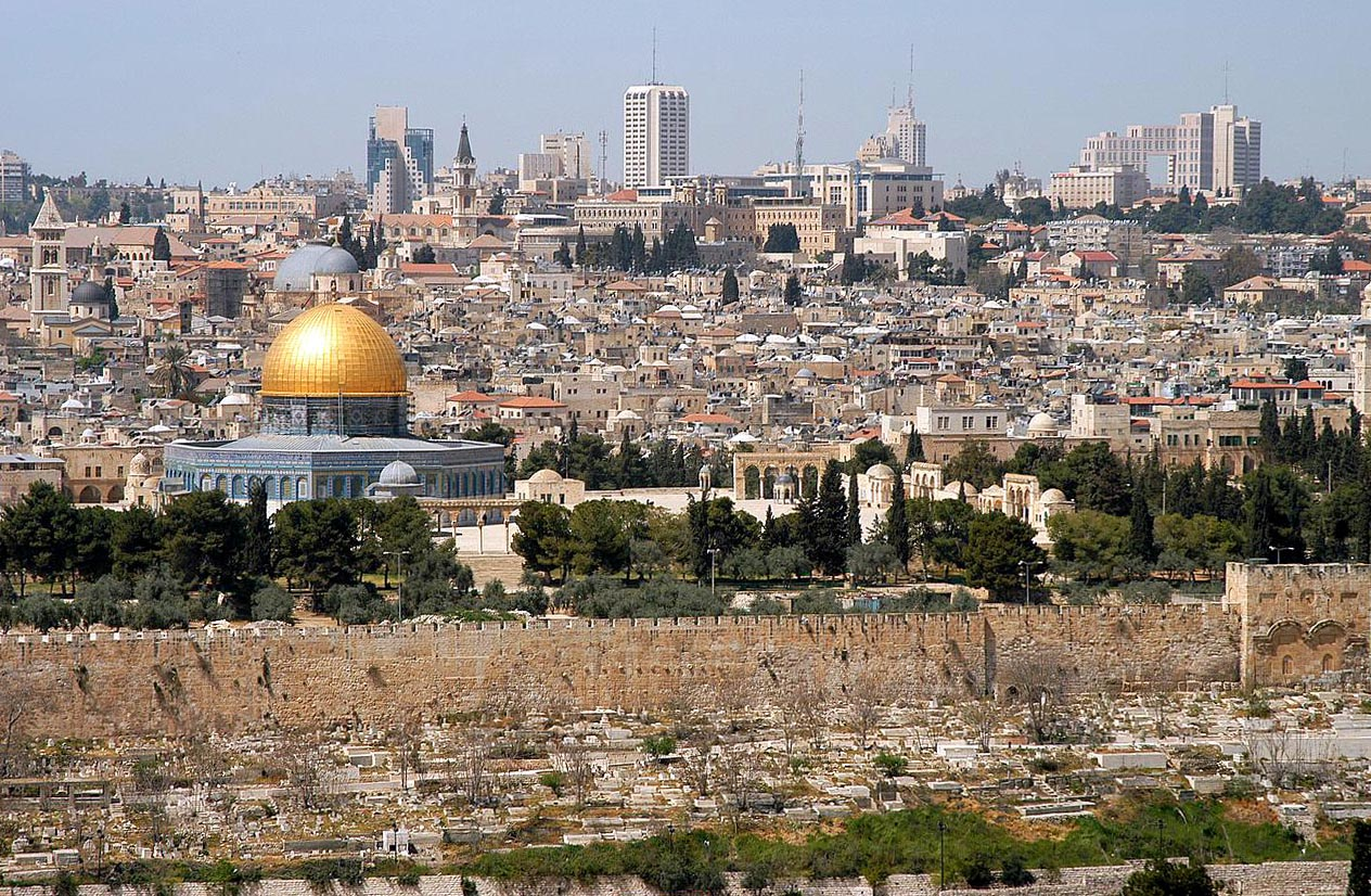 Jerusalem Old City from Mount of Olives.